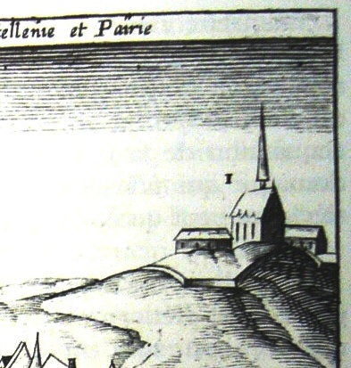 Ancient etching by Claude Chastillon